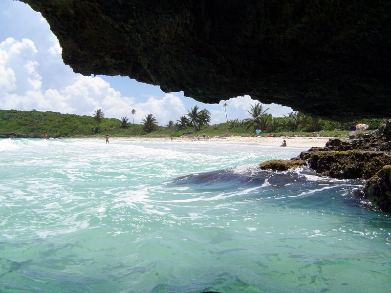 View from a sea cave towards Navio Beach and native palms, Vieques, Puerto Rico